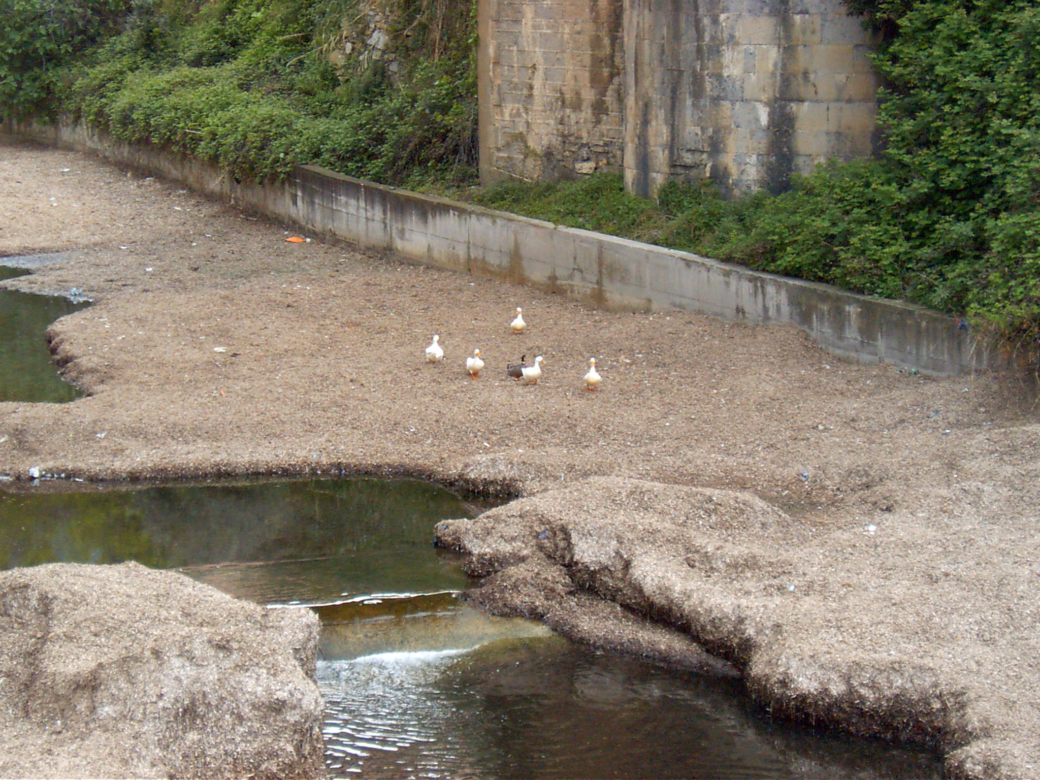 ducks at mouth of the stream Nervi of Genova